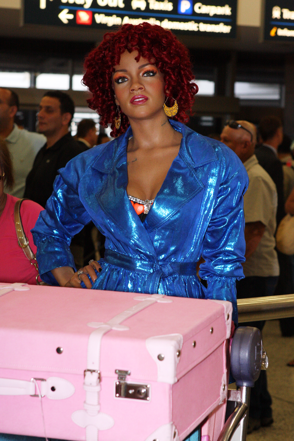 Two world-renowned pop-stars, Beyonce and Britney touch down at Sydney International Airport just in time for the Mardi Gras parade, with their designer luggage in-tow. The Queens of Pop will be dressed to impress. Beyonce will be wearing an outfit from the music video for her global hit ‘Single Ladies’ – while Britney will be wearing a stunning, sparkling silver dress, holding just one of many music awards she has won throughout her career. With powerhouse vocals and killer dance moves, these two Queens of Pop have collectively sold over 175 million albums worldwide and have achieved countless number one hits throughout their international careers. Beyonce and Britney touching down in Sydney, with designer luggage in-tow Beyonce in her signature pose and outfit from global hit, ‘Single Ladies’ Britney Spears in a sparkling silver dress holding a music award